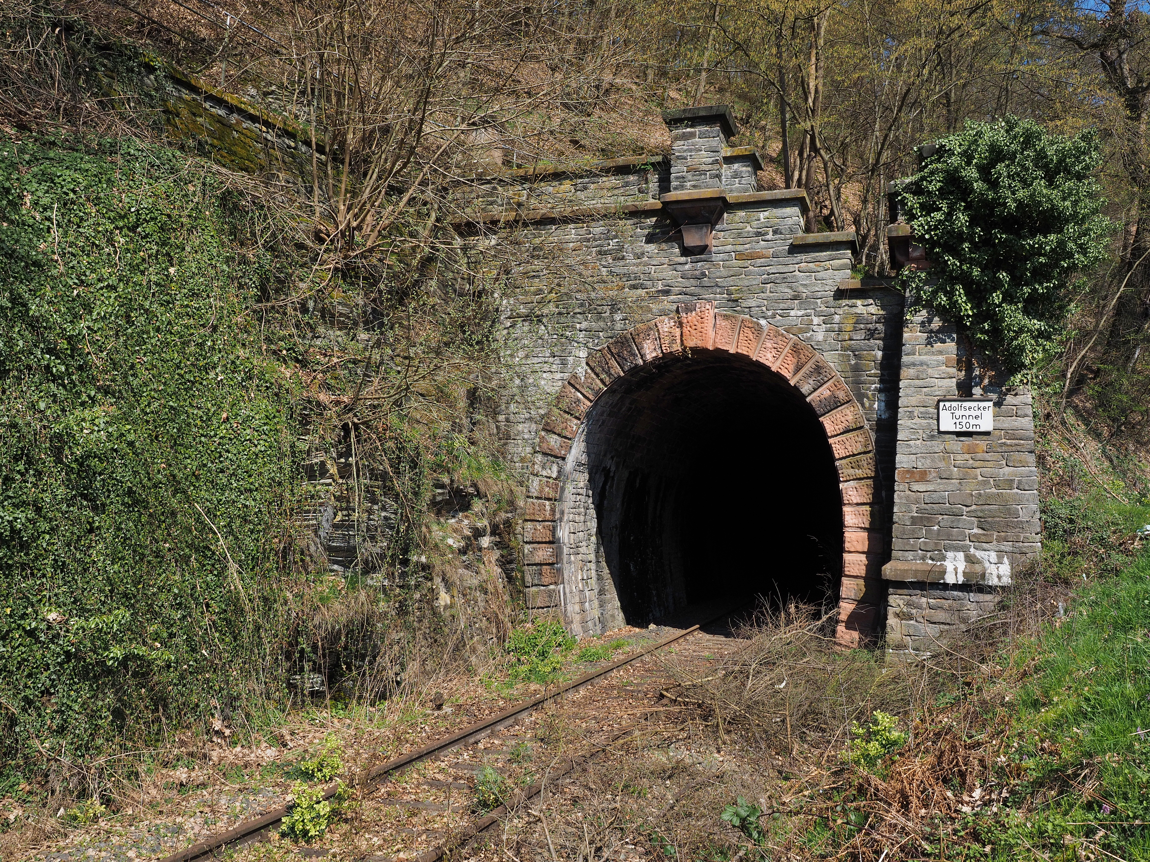 South entrance of Adolfseck tunnel, Aartal railway, Germany